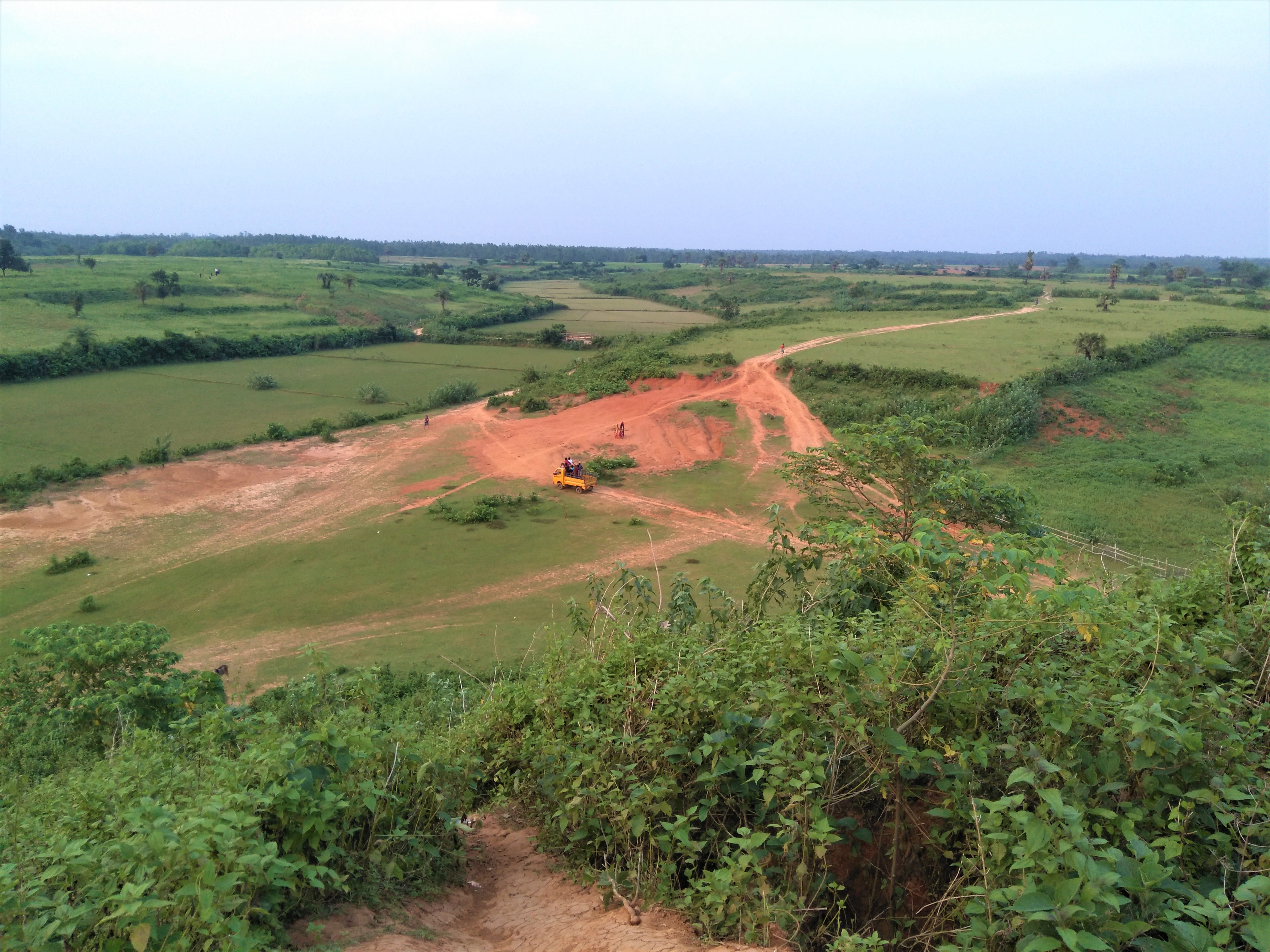 Jharka Field Firing Range, Shahid Salahuddin Cantonment, Ghatail.